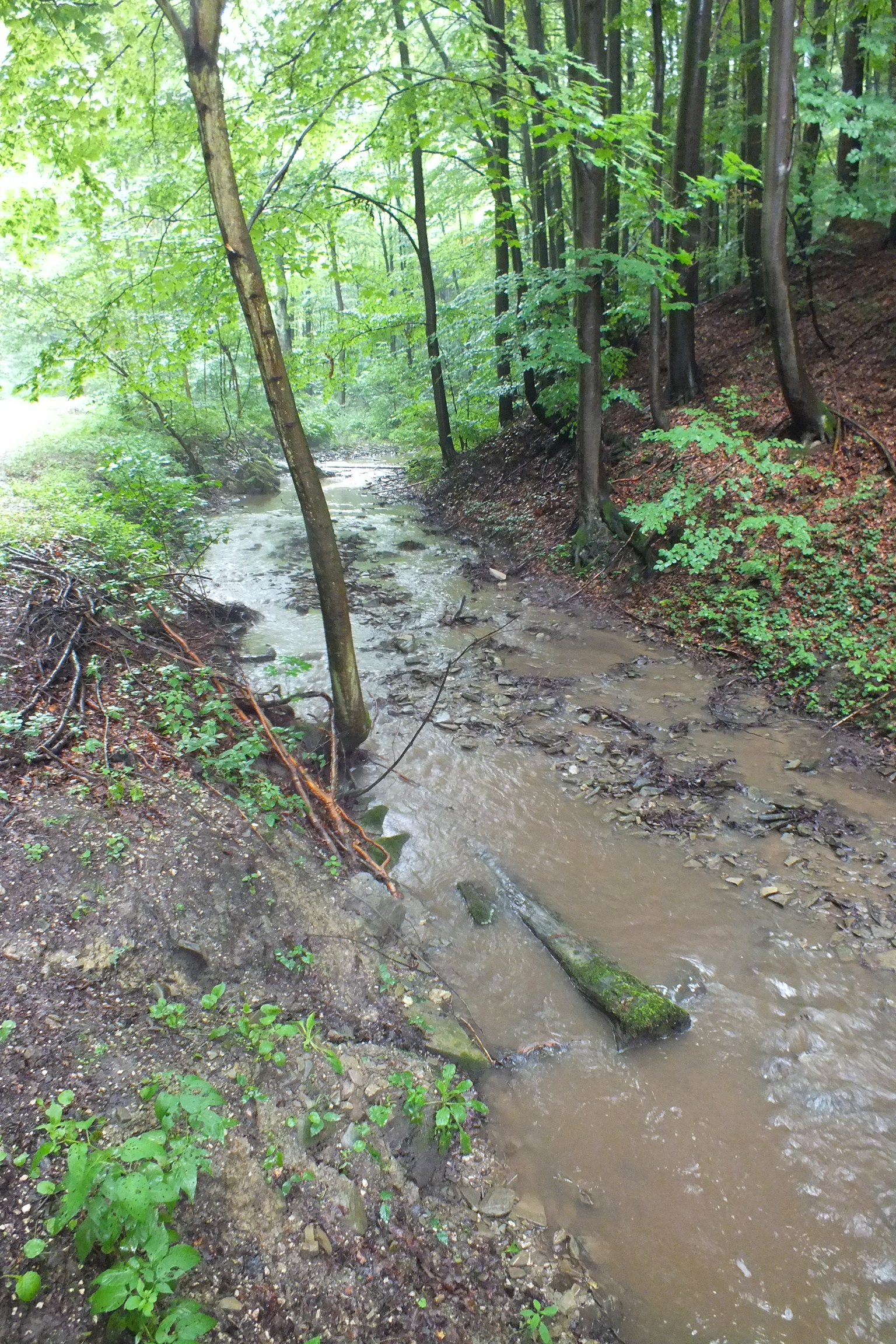 Svinárský potok (the Svináry Brook), a brook in the White Carpathians, the Czech Republic.